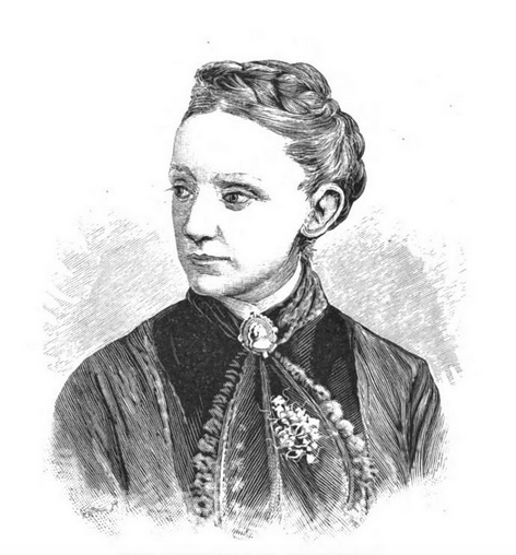 Elizabeth W. Greenwood